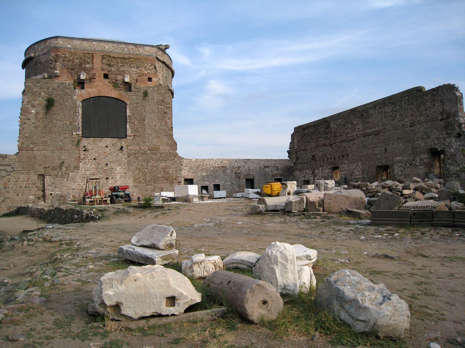 South rotunda of the Red Basilica, Pergamon